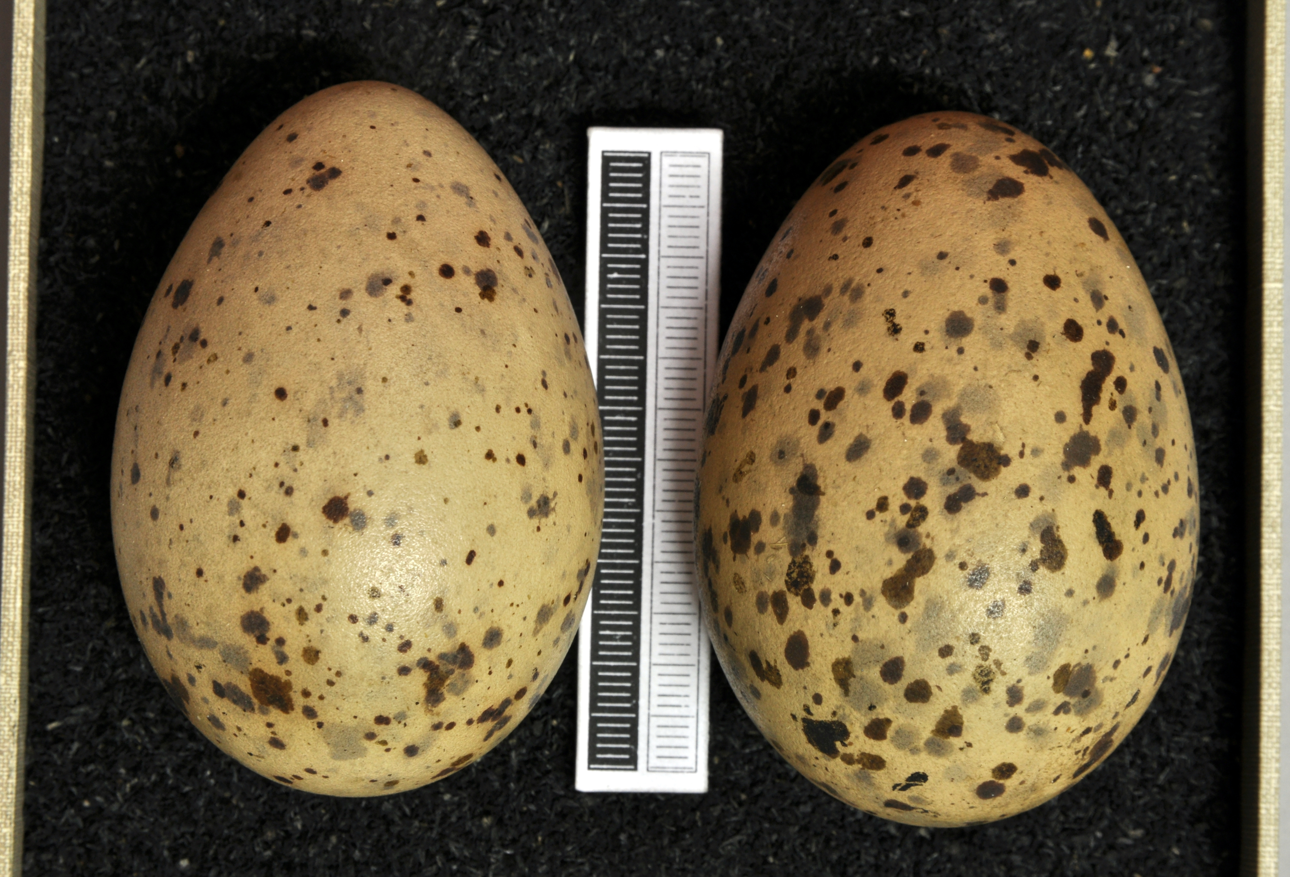 Iceland gull Larus glaucoides , egg, Coll. Museum Wiesbaden